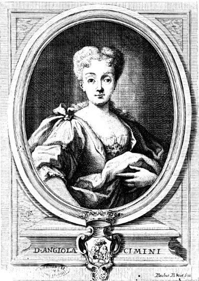 Portrait of Angiola Cimini, Marchesan della Petrella. Coat of arms of Cimini family under a Marquis crown